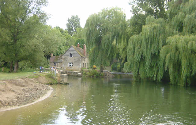 Inglesham Round House. The junction of the River Thames with the River Coln and the disused Thames and Severn Canal, which goes straight ahead below the arch. Inglesham Round House is the tall building covered in ivy visible behind the two-storey house.